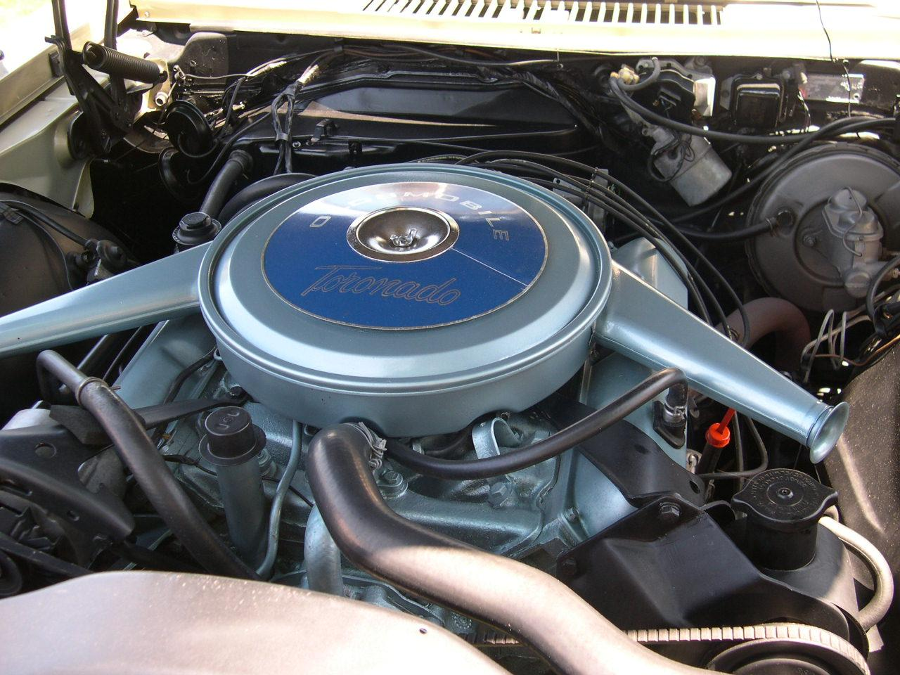 1967 Oldsmobile Toronado engine Source: Photographed at the Bay State Antique Automobile Club's July 10, 2005 show at the Endicott Estate in Dedham, MA by User:Sfoskett